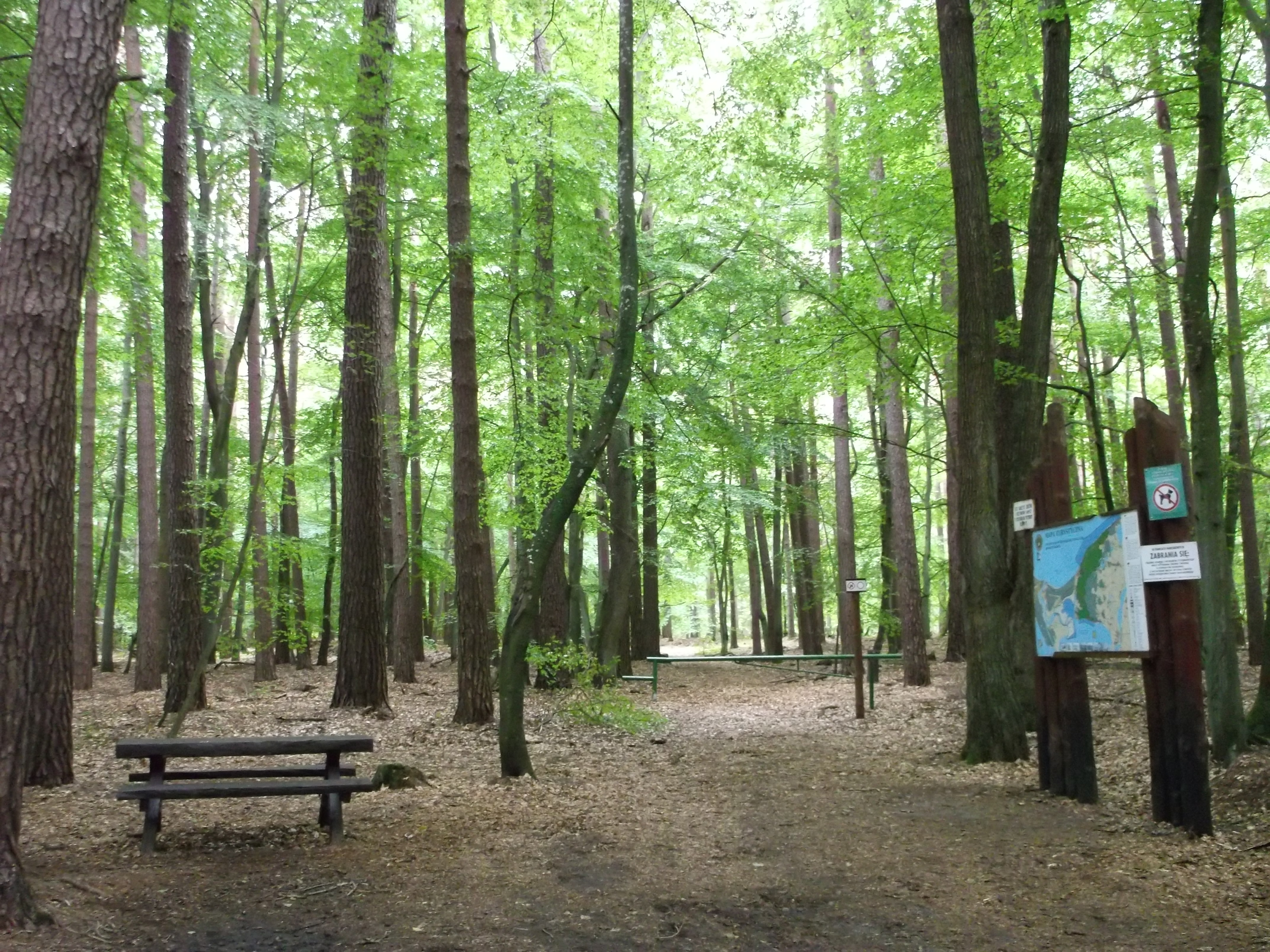 Wolin National Park, the area of Czajcze Lake (Poland)